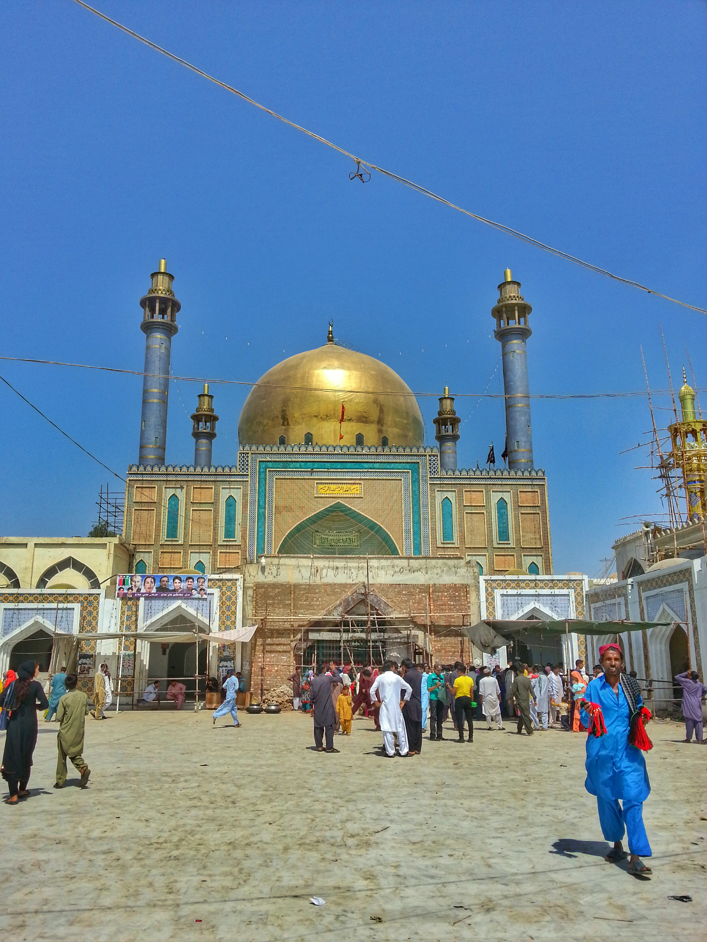 Tomb of Lal Shahbaz Qalandar This is a photo of a monument in Pakistan identified as the SD-U-6